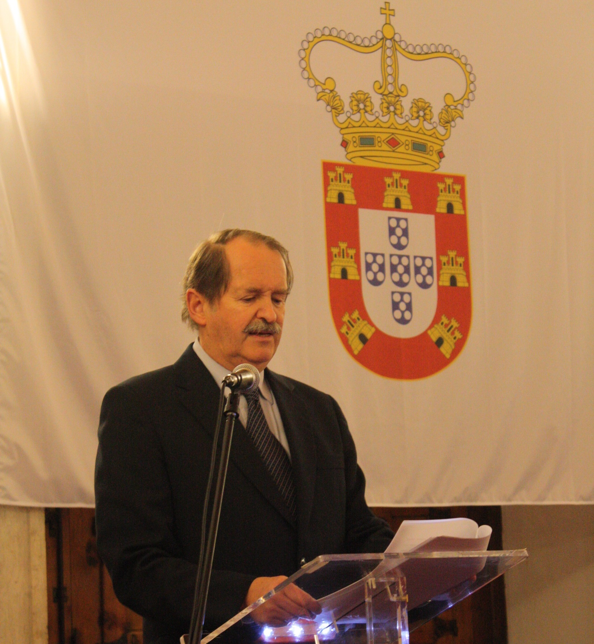 Jantar dos Conjurados.2008 029